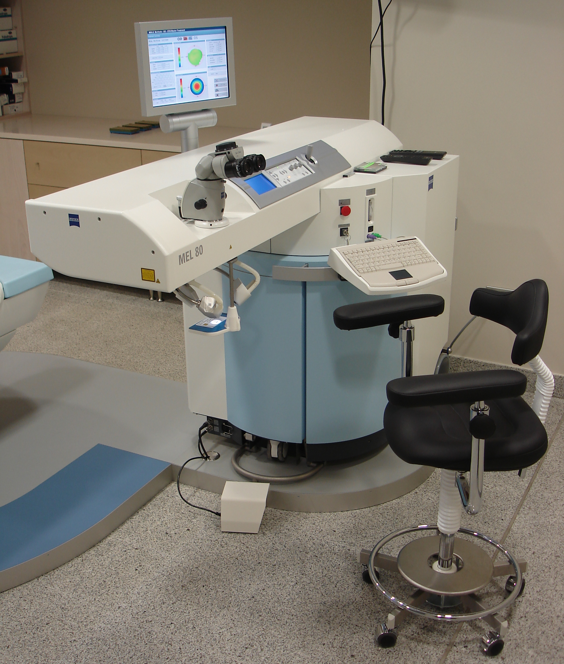 Ophtalmic Excimer Laser for refractive surgery - "MEL80" (Carl Zeiss Meditec AG/Germany)